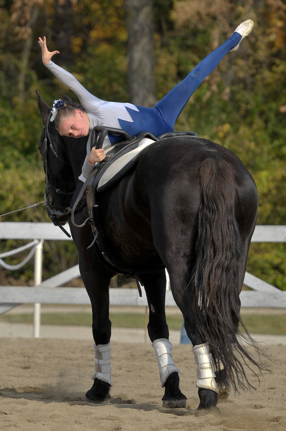 I forgot what this was called, basically gymnastics on a moving horse with no protective equipment. These girls from Iowa were really great.